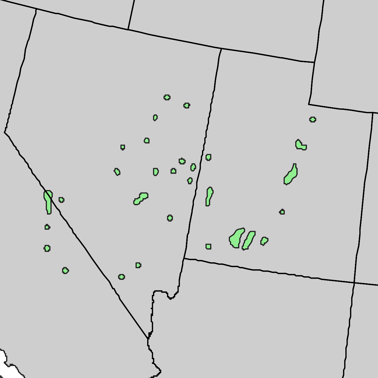 Natural distribution map for Pinus longaeva